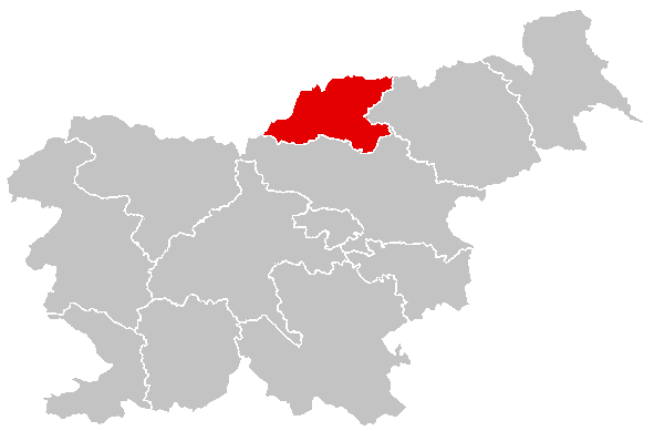 map representing the Koroška statistical region of Slovenia. modified from File:Slovenian-regions-obalnokraska.png